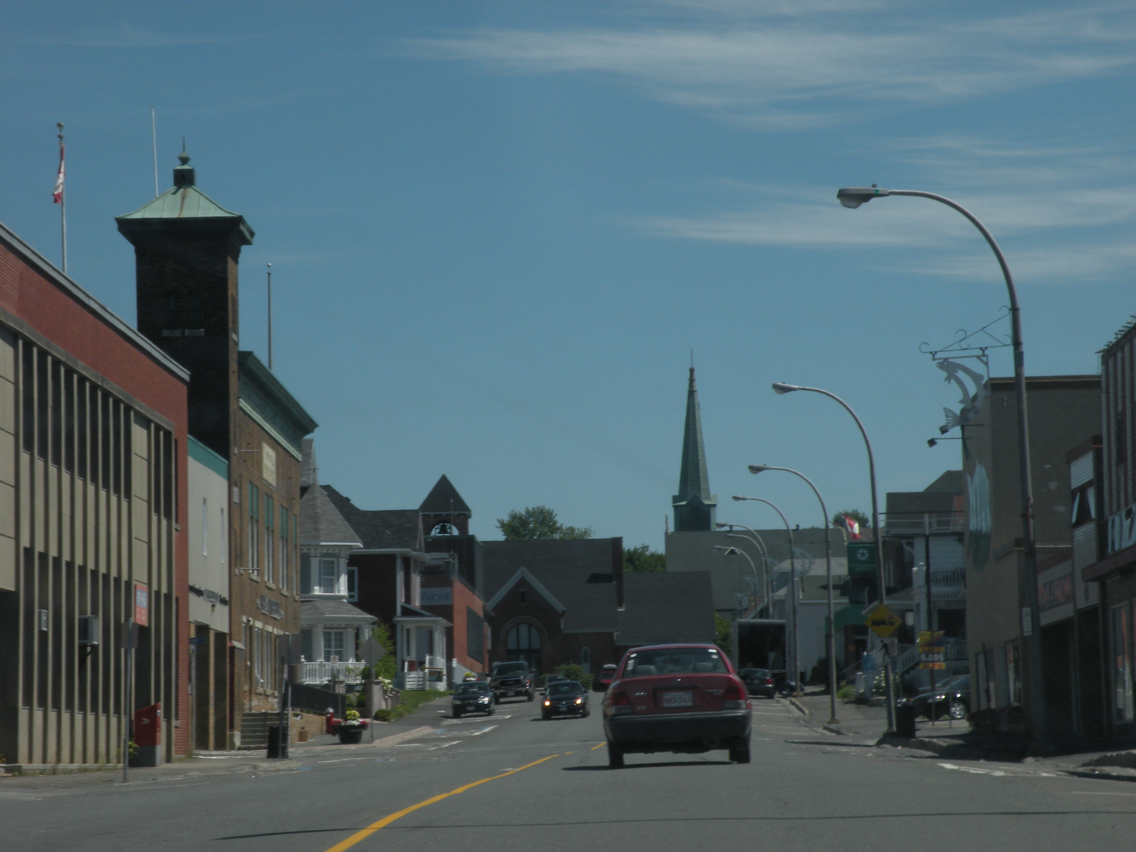 Roseberry Street in Campbellton, New Brunswick, Canada.